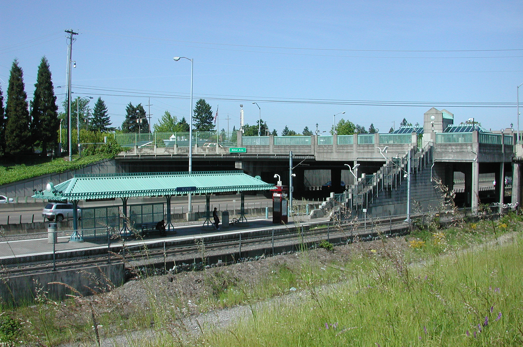 Northeast 82nd Avenue Metropolitan Area Express (MAX) light-rail station in Portland, Oregon, United States, looking southwest from a side street above the tracks. The steps lead to the overpass that carries the avenue across Interstate 84 and the rail lines.